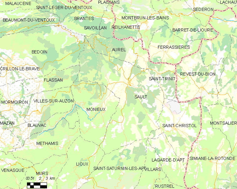 Map of French municipality Sault